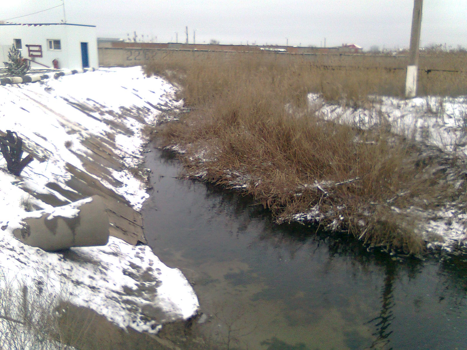 Azovka River (Don) near the source.